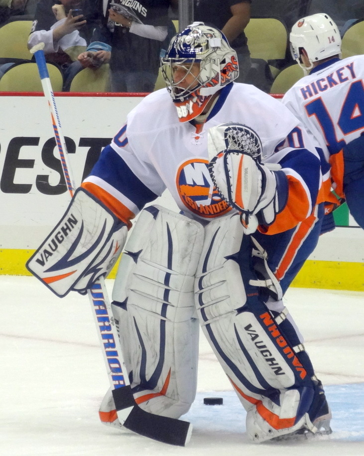 New York Islanders starting goaltender Evgeni Nabakov during round one, game five of the 2013 Stanley Cup playoffs against the Pittsburgh Penguins, May 9, 2013 at Consol Energy Center. Nabakov surrendered four goals before being pulled from the game in the third period of the Islanders' 4-0 loss.